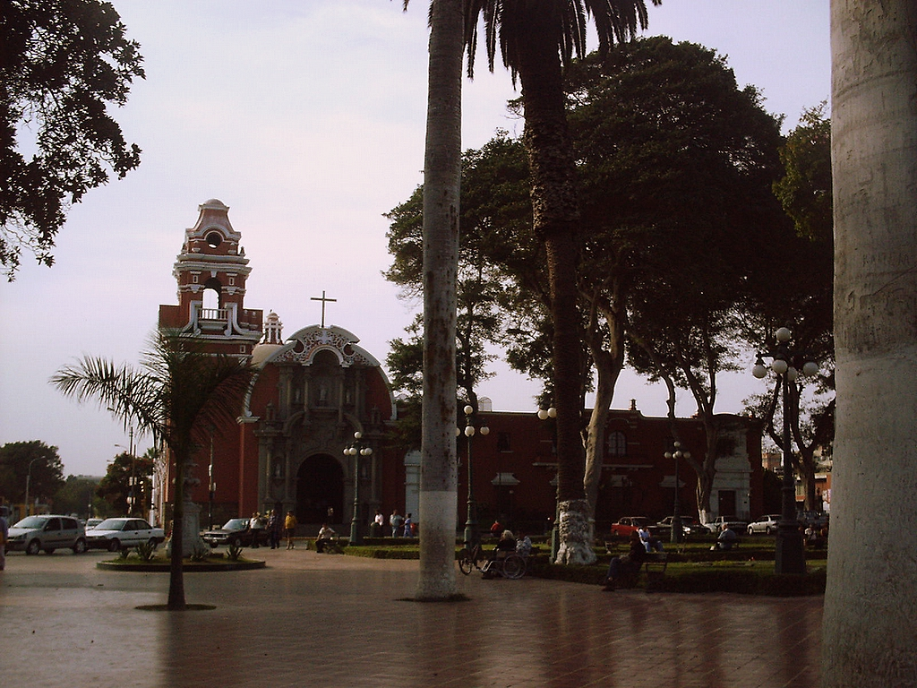 This picture was taken by me on april 10, 2006 with a Vivitar camera